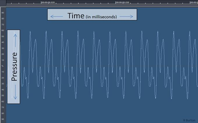 This is a picture of a wave file captioned with pressure and time as the 'X' and 'Y' coordinates.